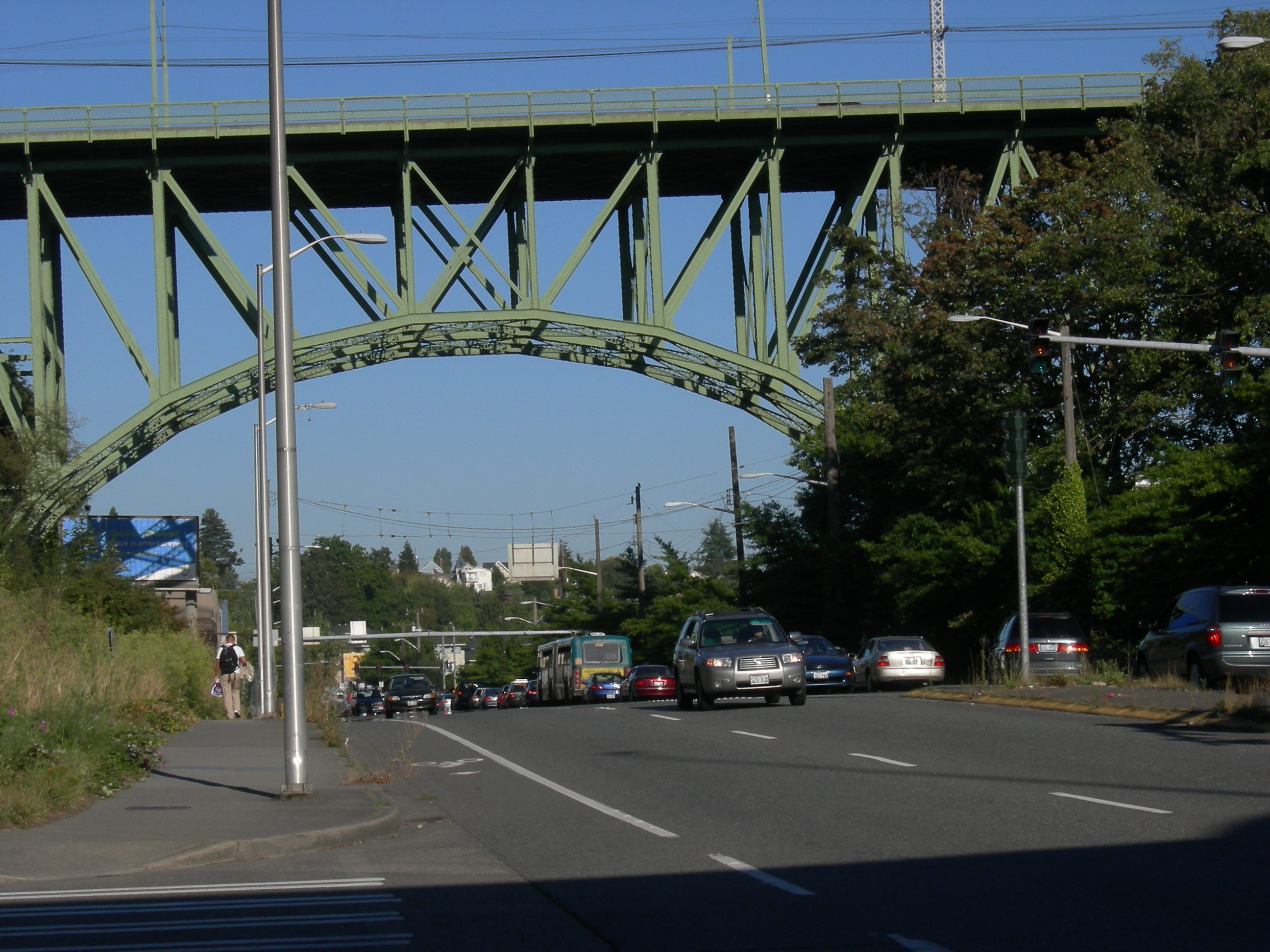 12th Ave S. Bridge (now Jose P. Rizal Bridge), on the National Register of Historic Places. The bridge spans over Dearborn Street and connects First Hill, the Central District, and the International District on its north to Beacon Hill on its south. Looking east on Dearborn toward the bridge.